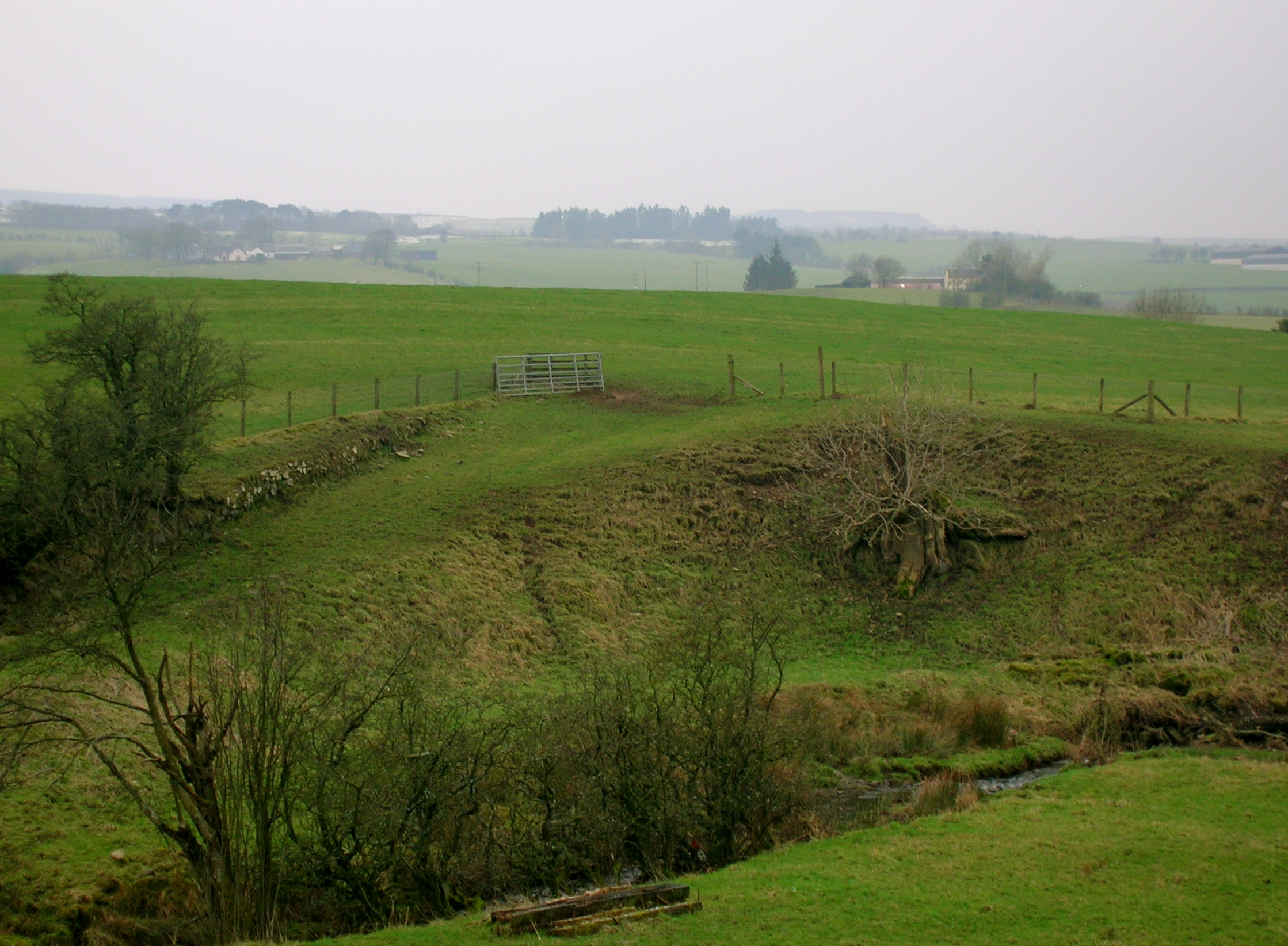 Entrance lane to old Borland Castle site, New Cumnock, East Ayrshire, Scotland